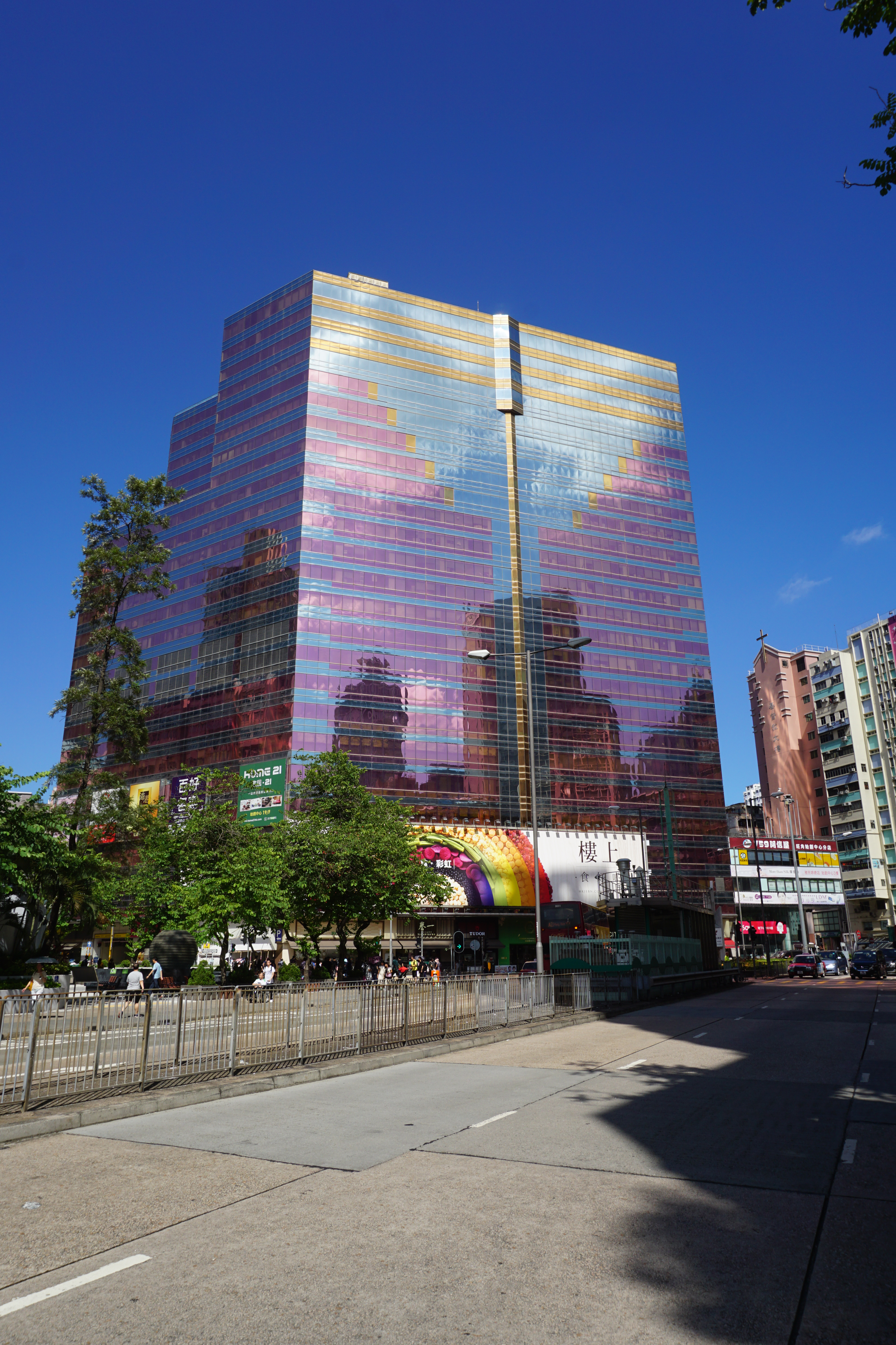 Pioneer Centre in Prince Edward, Hong Kong.